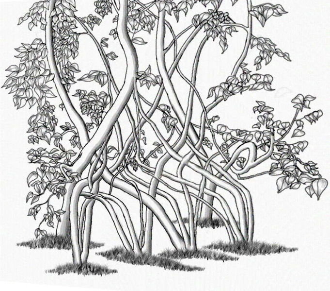 A representation drawing of Richard Reames's living bench chair. A group of trees bent into a bench. Created using the techniques as described in Richard Reames's books How to grow a chair and Arborsculpture